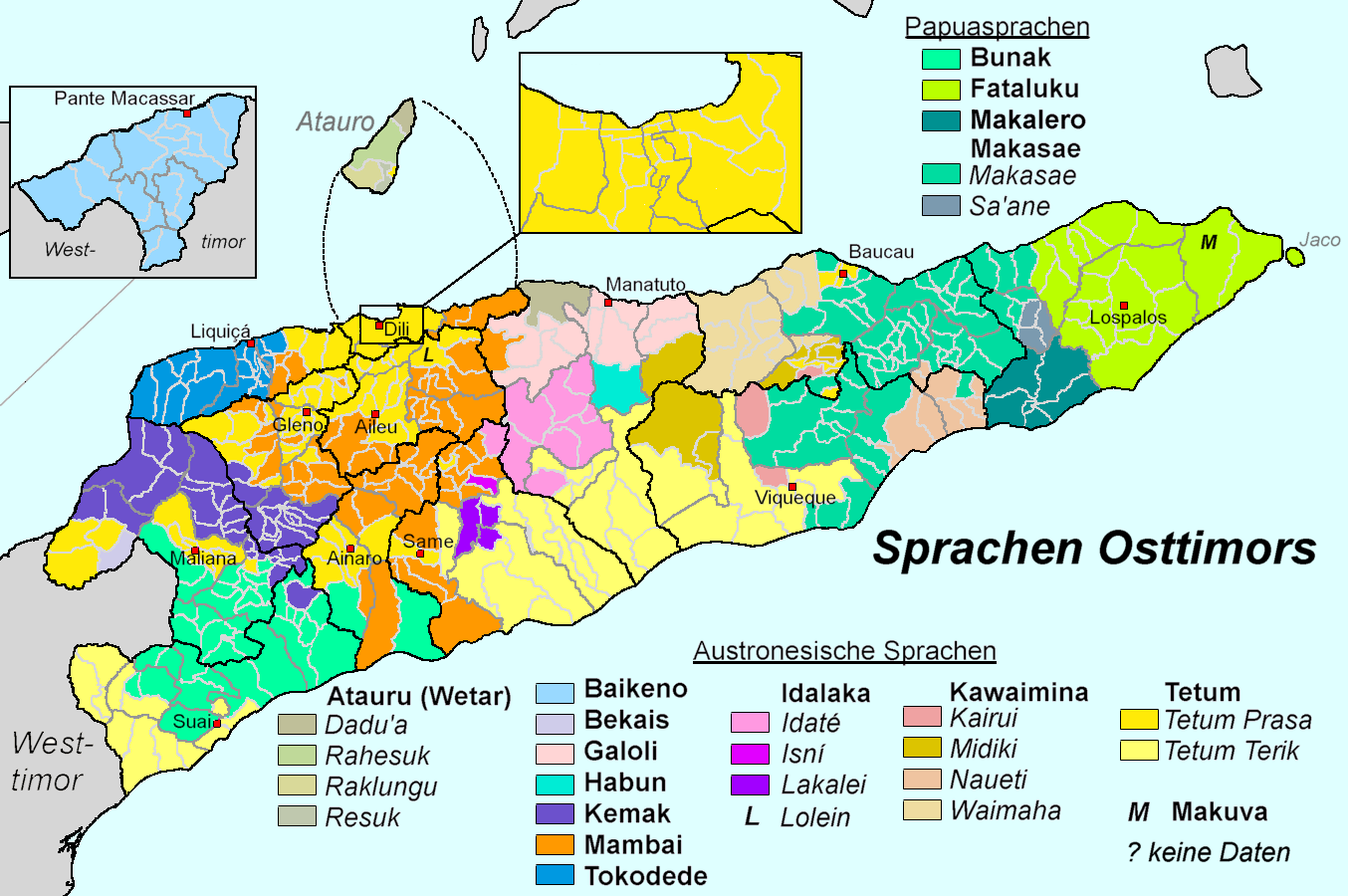 Major language groups in East Timor, according to the October 2010 census (German)